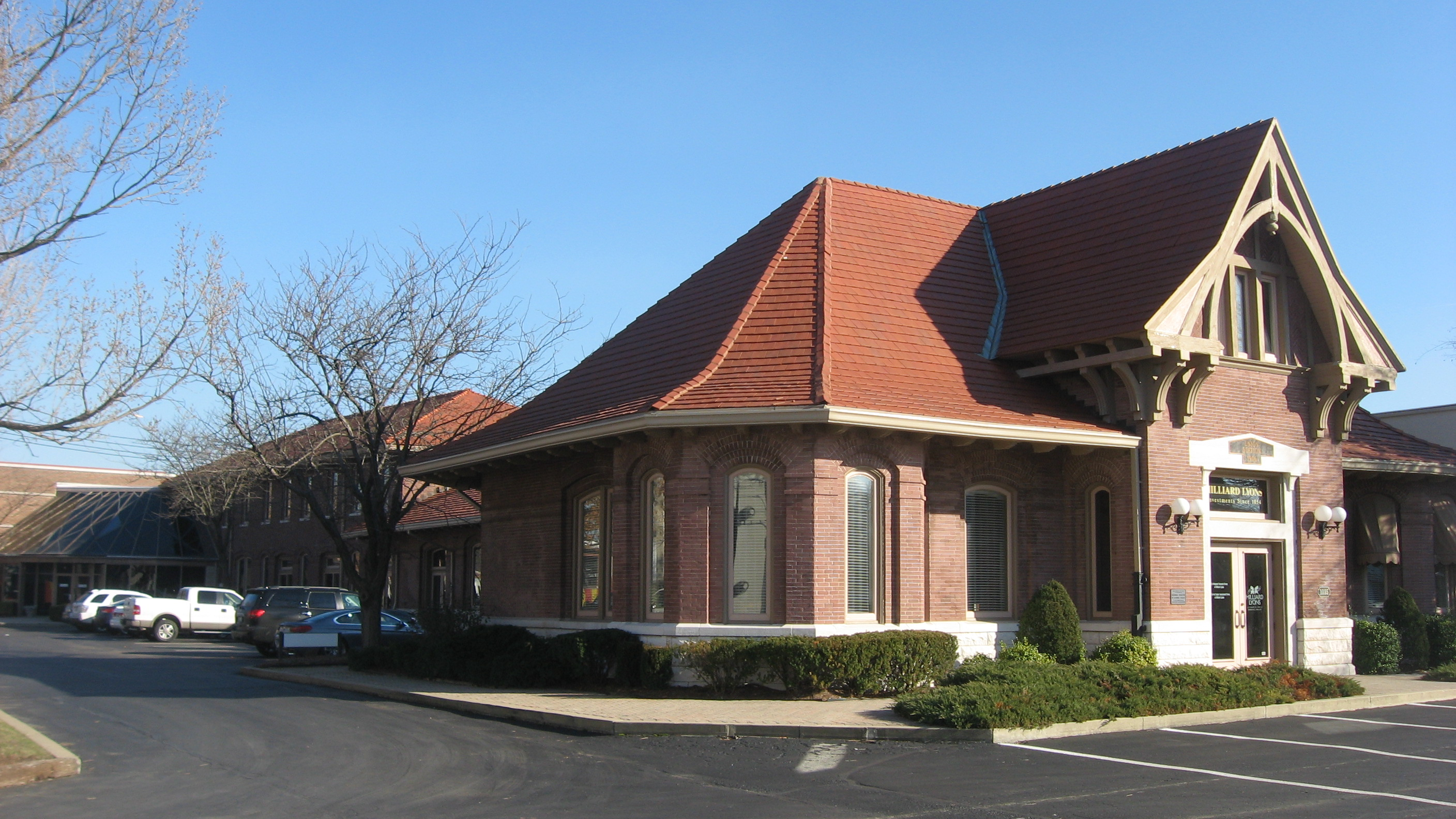 Front and northern side of the Owensboro Union Station, located at 1039 Frederica Street (Kentucky Route 2831) in Owensboro, Kentucky, United States. Built in 1905, it is listed on the National Register of Historic Places.